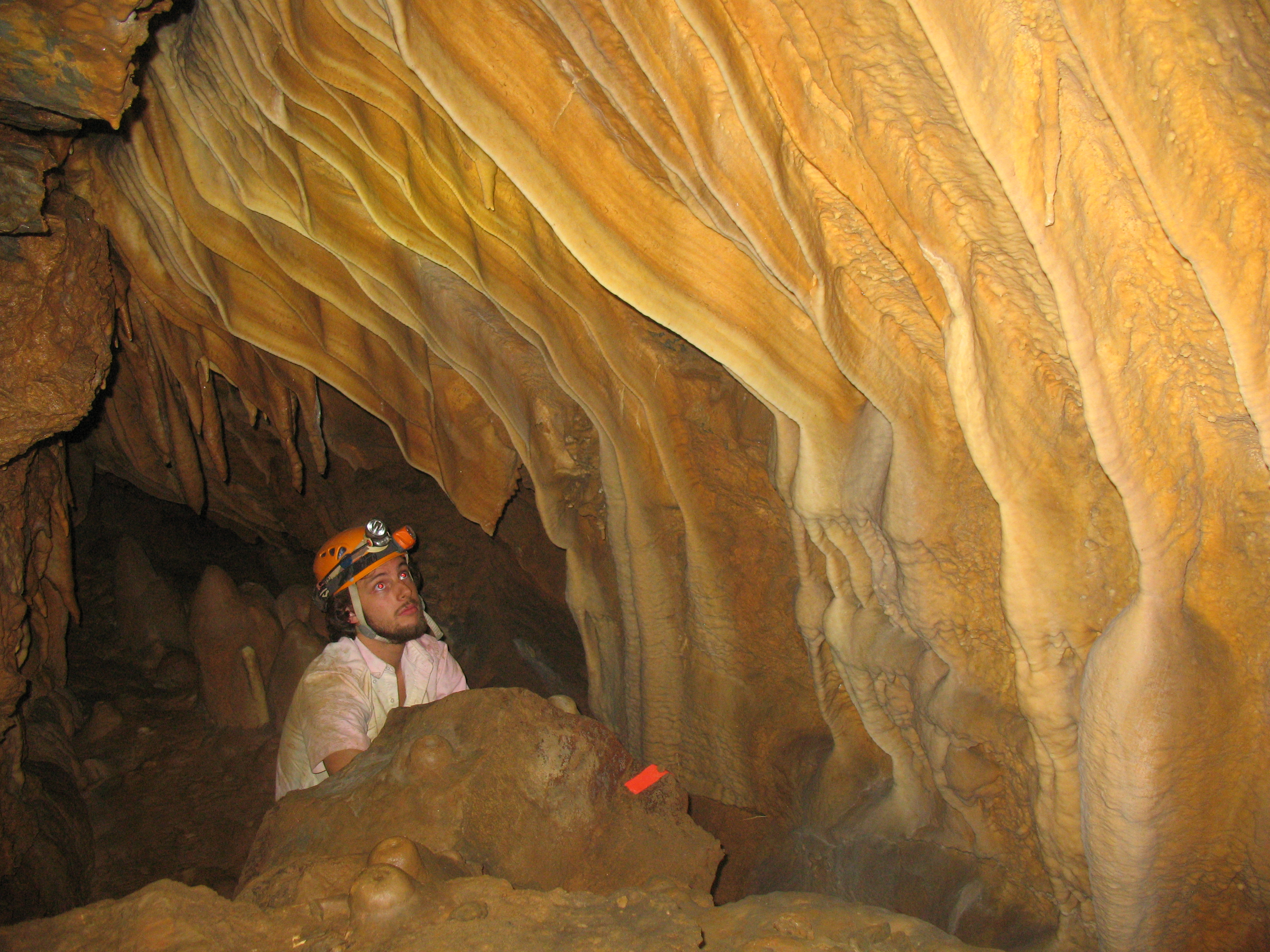 This image was shot in The Crystal Grottoes Caverns in Boonsboro Maryland. The Crystal Grottoes are solutional caverns with a very high concentration of calcium carbonate which makes for the countless speleothems that adorn these caverns.